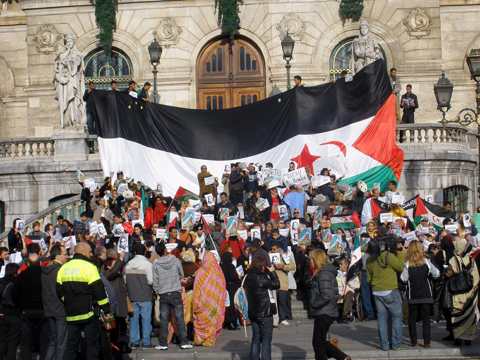 Public demonstration supporting Aminatu Haidar's hunger strike and the Sahrawi people's rights. Staged in Bilbao (Basque Country, Spain) on Dec 12, 2009